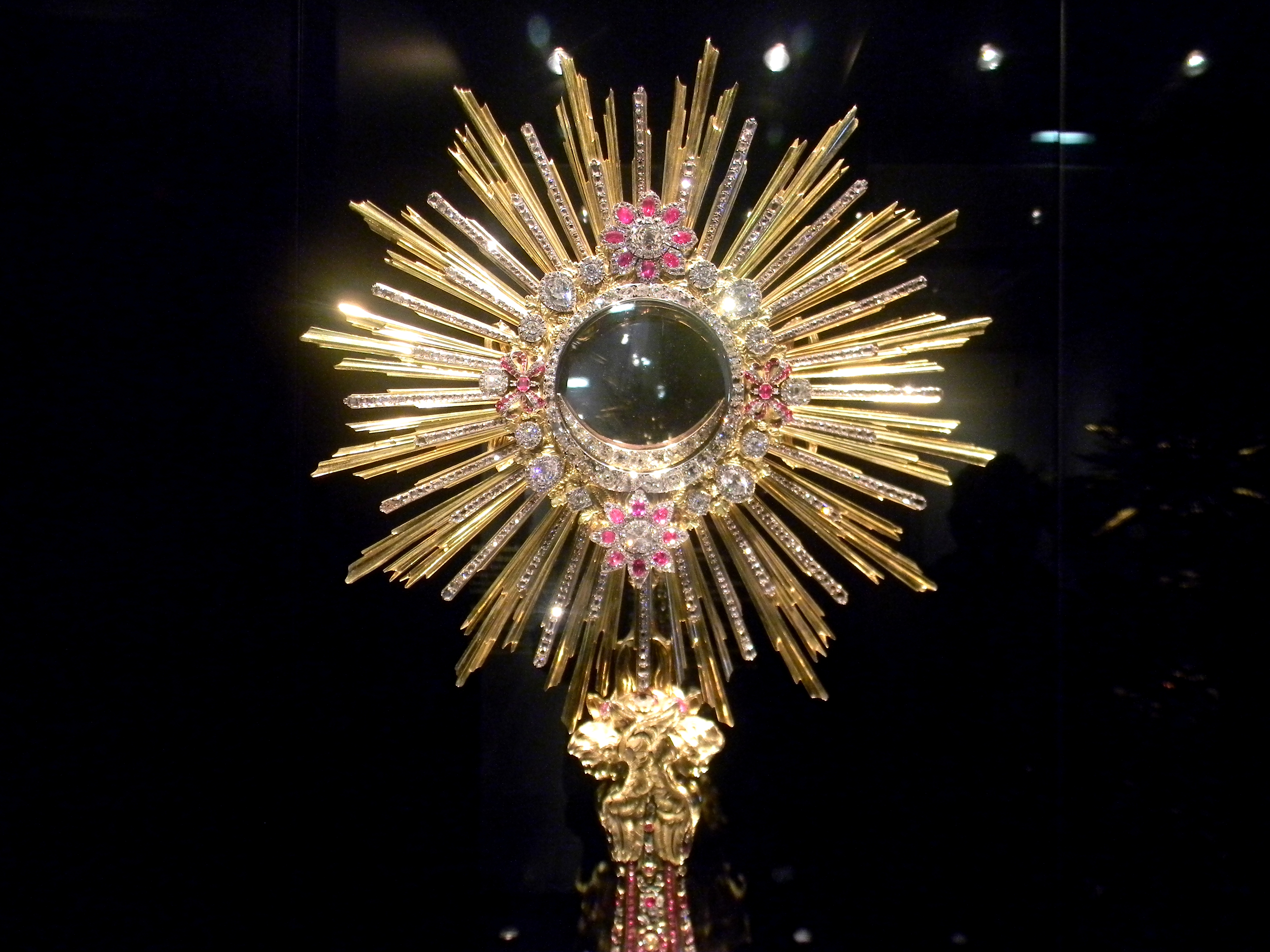 Detail of the large monstrance from the Bemposta Palace chapel, made of gold, silver gilt and gems, Lisbon, mid 18th century. Nowadays in the National Museum of Ancient Art, Lisbon.